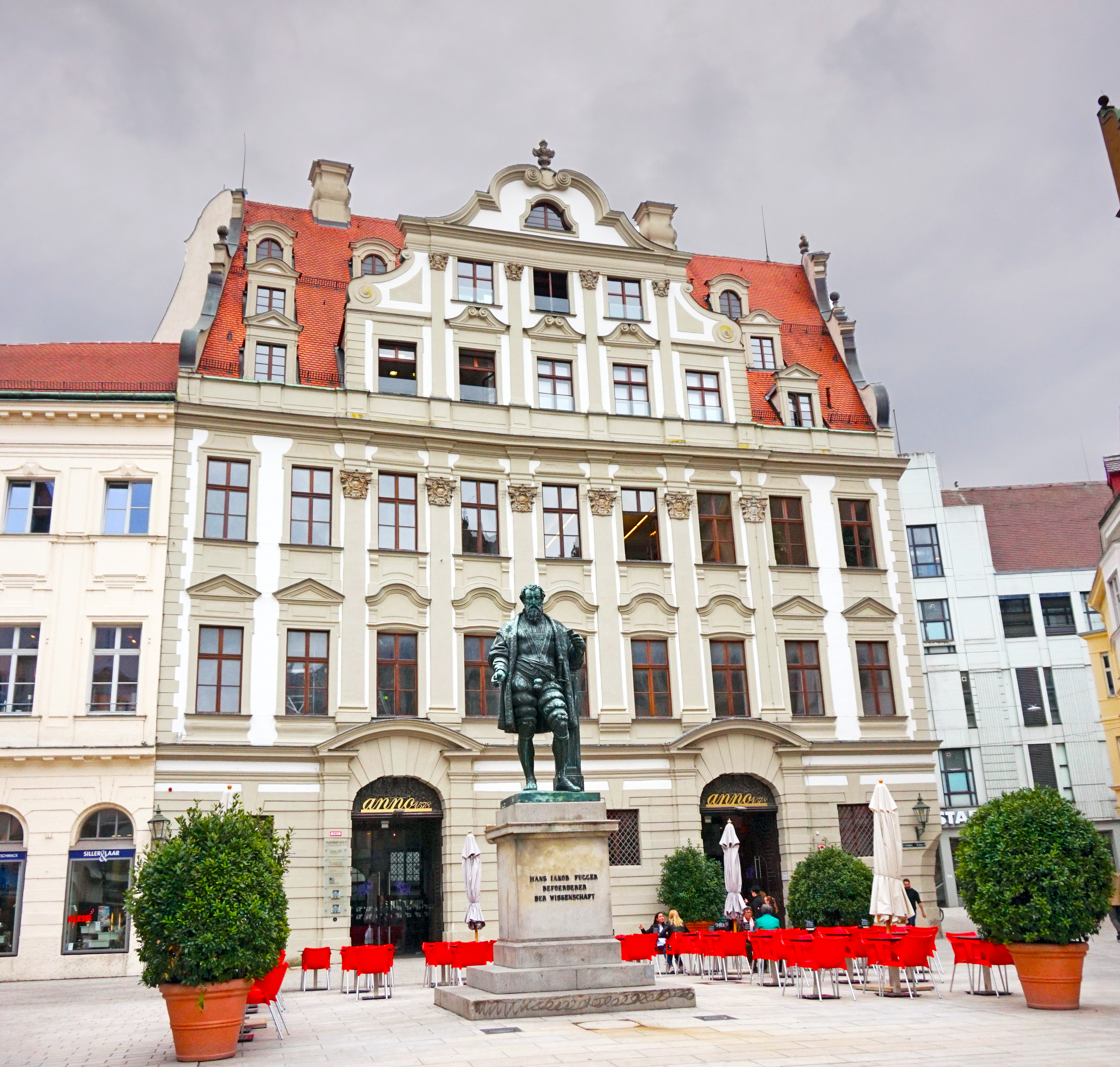 Fuggerplatz 9, Augsburg.This is a photograph of an architectural monument.